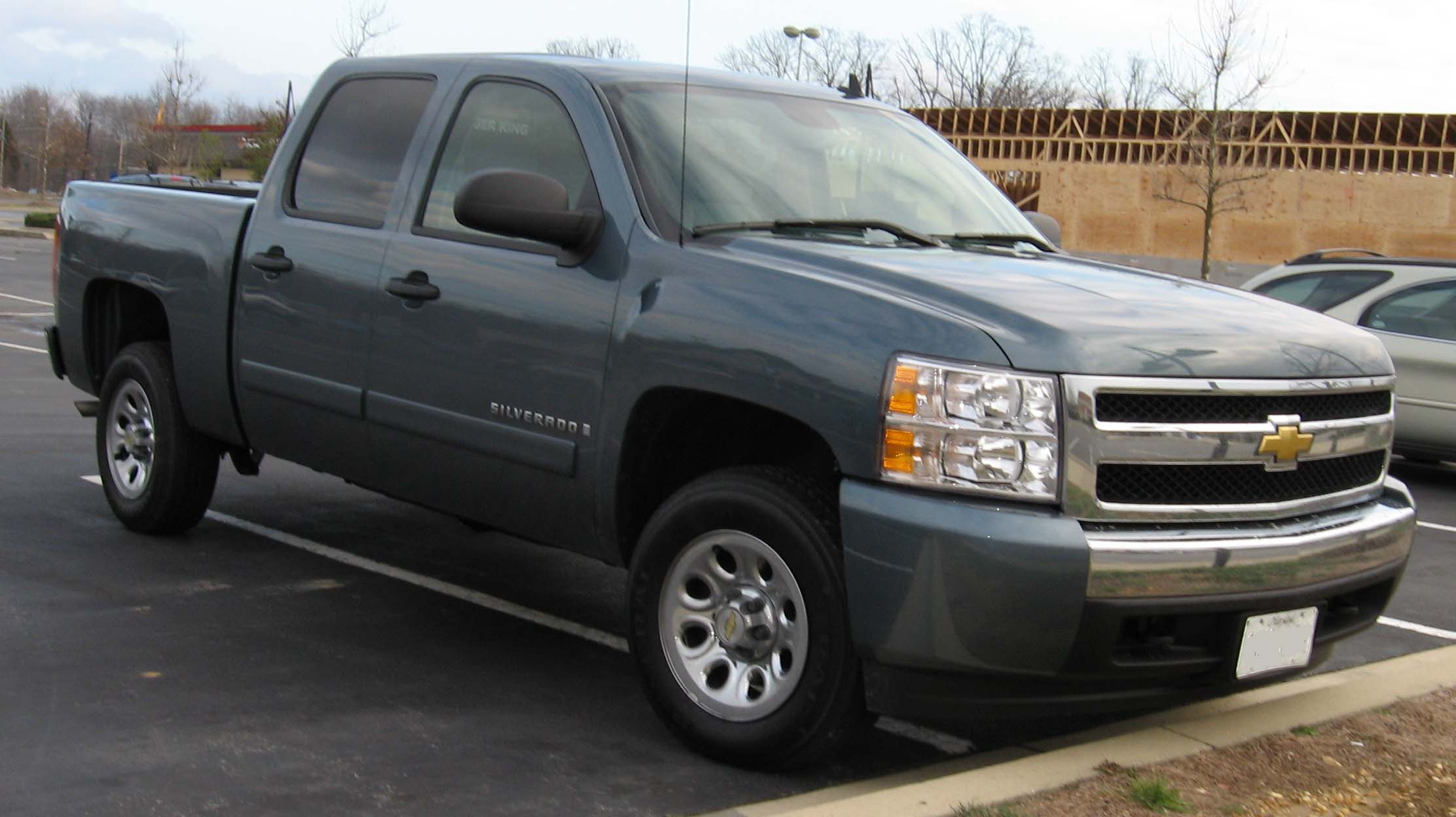 2007 Chevrolet Silverado photographed in USA.